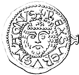 Coin (front) of King Sverre Sigurdsson of Norway. Text: "+ REX SVERVS MAGNVS".